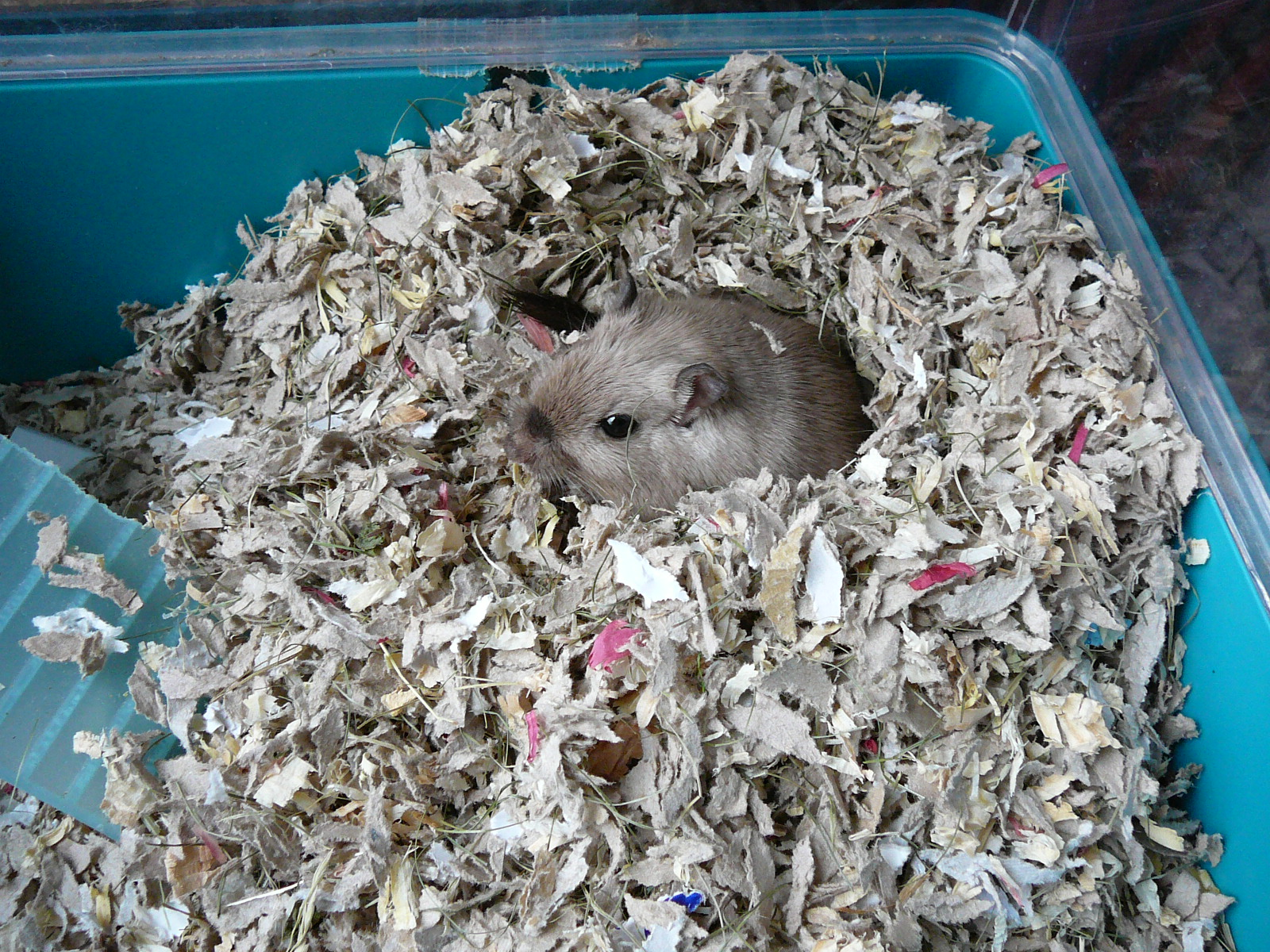 Gerbil (Meriones unguiculatus), Pet gerbil in nest